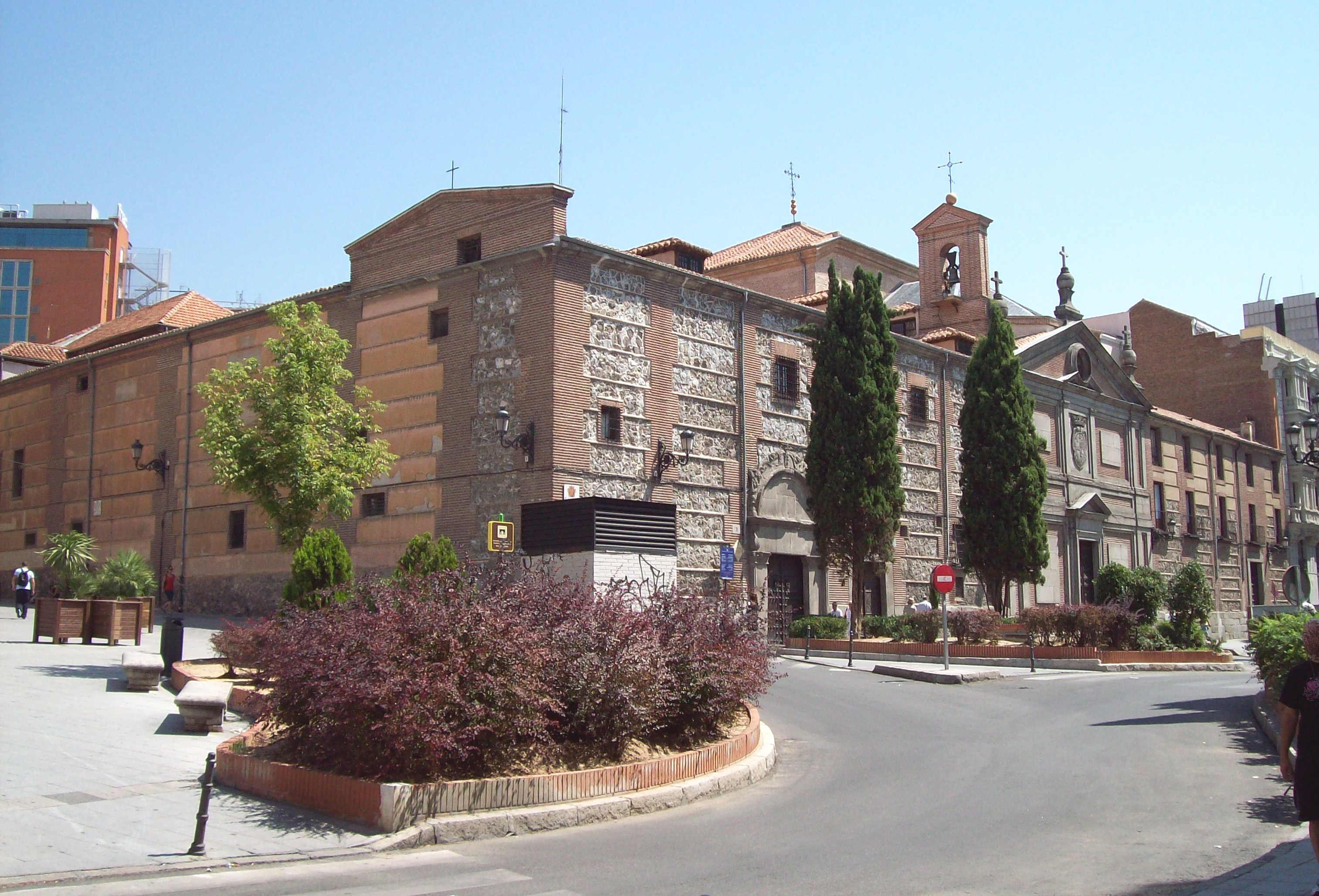 Monasterio de las Descalzas Reales, a convent at Plaza de las Descalzas (square) in Madrid (Spain).